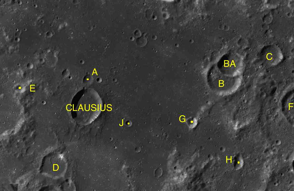 Part of the chart LAC-110 used for the presentation